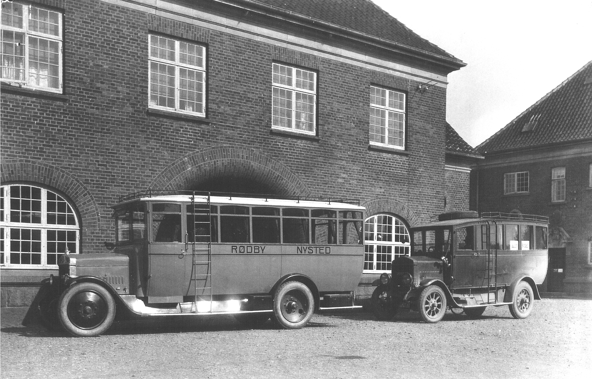 Local buses (Lolland/Denmark) 1922.